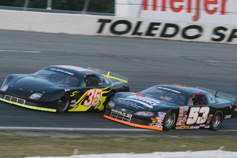 David Stremme (#35) and Boris Jurkovic (#53) battle in a CRA Super Series race at Toledo Speedway, August 1 2008.